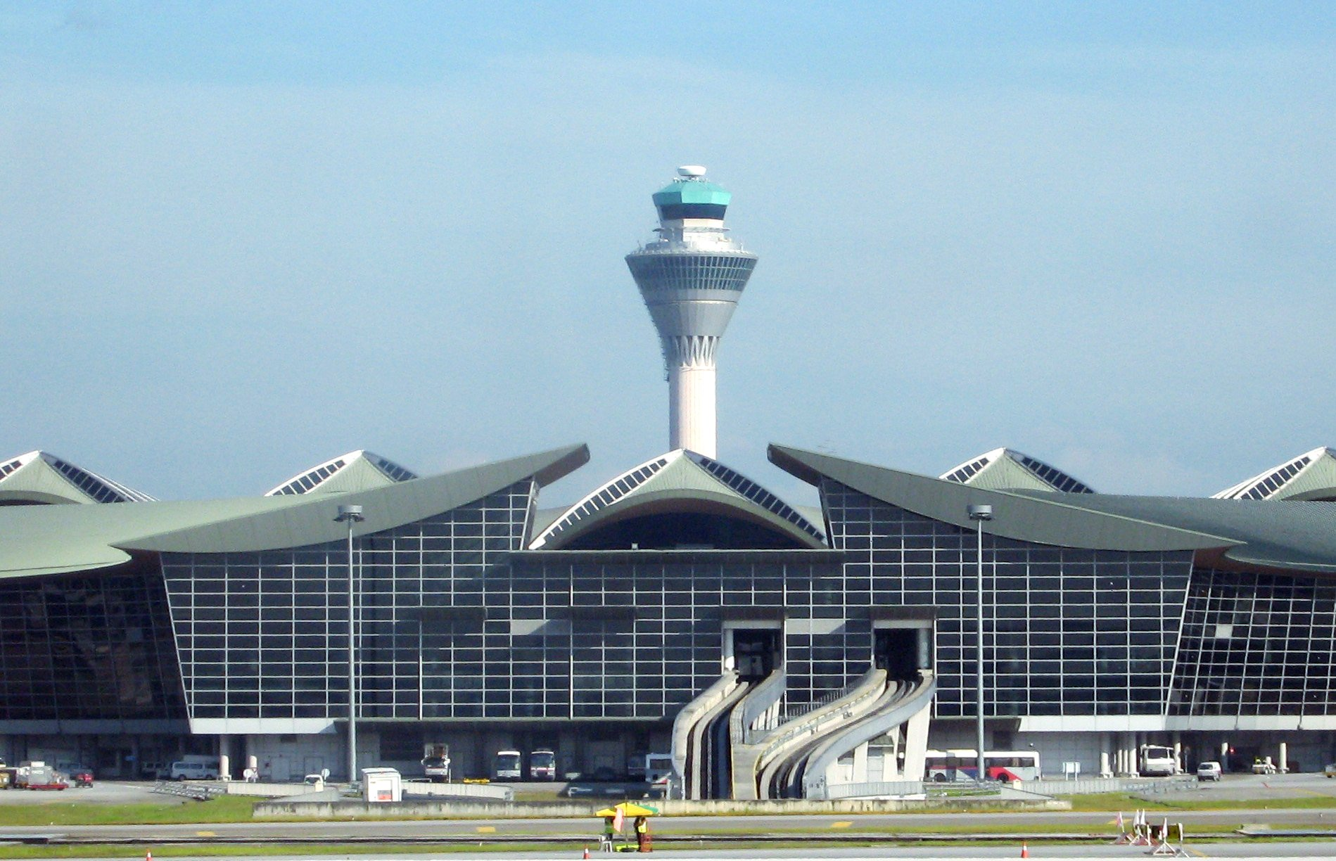 Main Terminal Building and Tower at KLIA